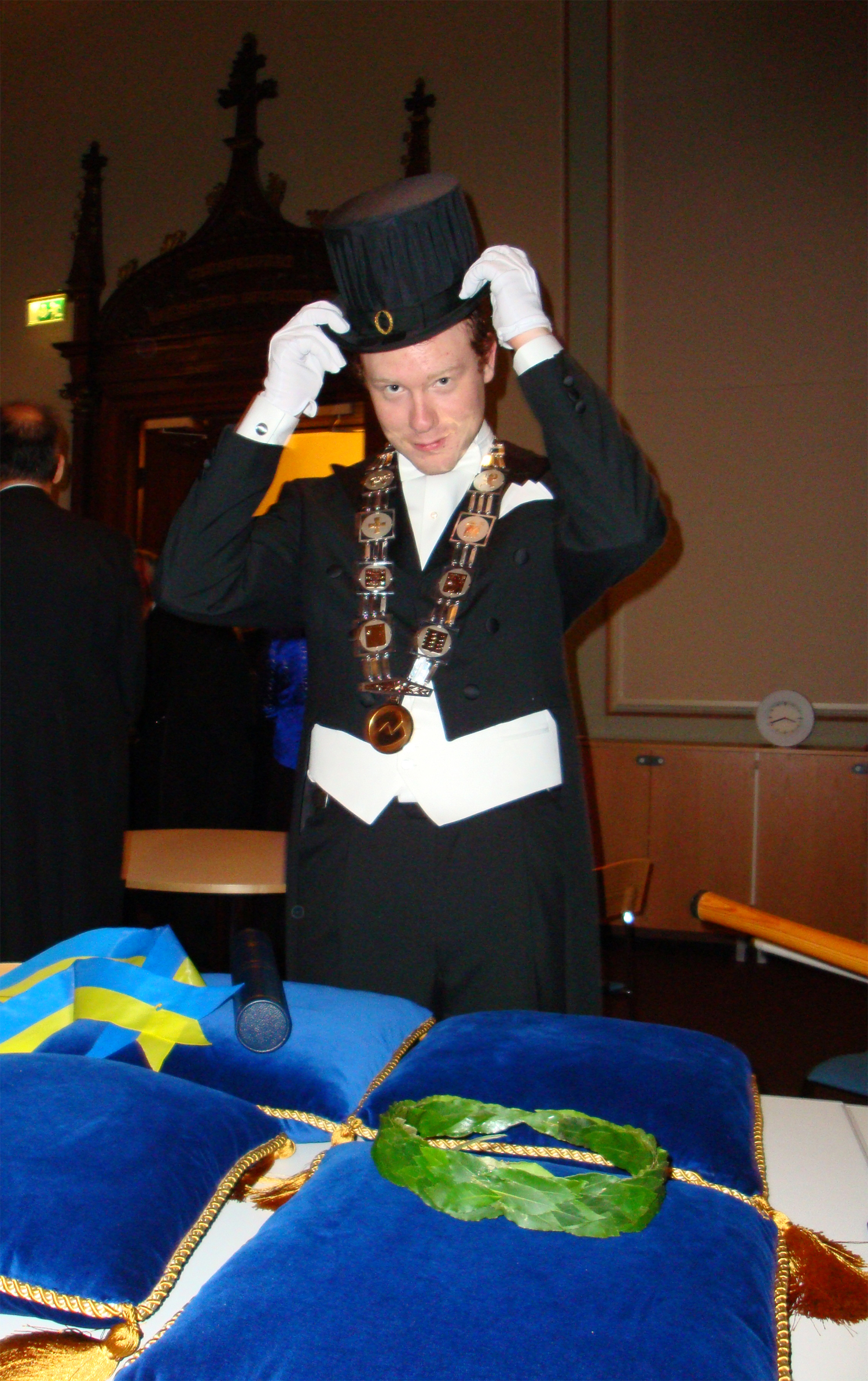 Robert Thunfors at Mid Sweden Universitys promotionday